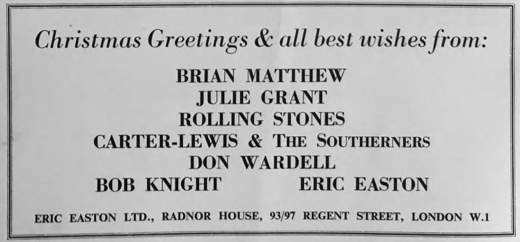 Magazine advertisement from Eric Easton Ltd, 1963